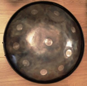 Top view of a Caisa Drum.